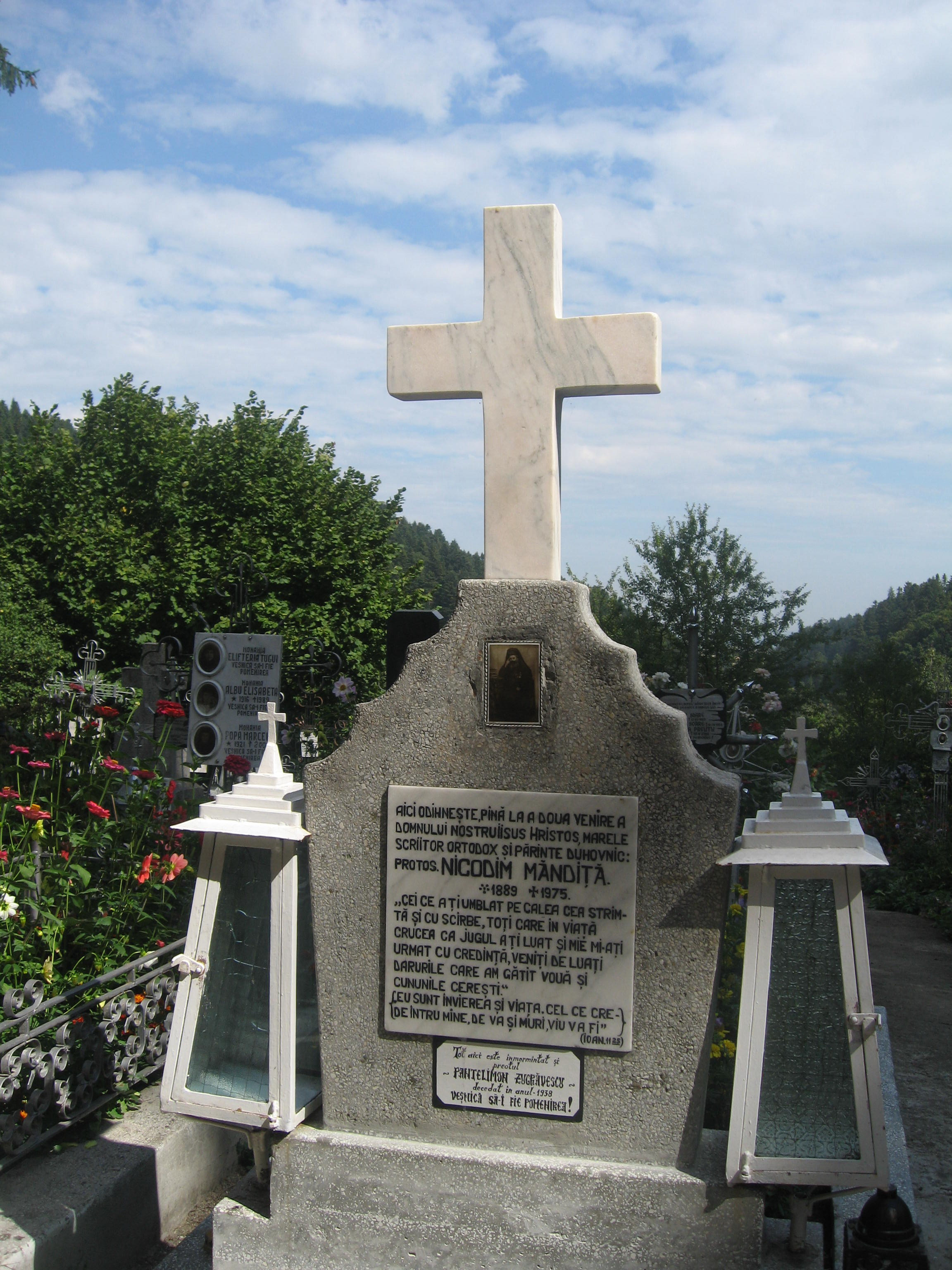 Nicodim Măndiţă